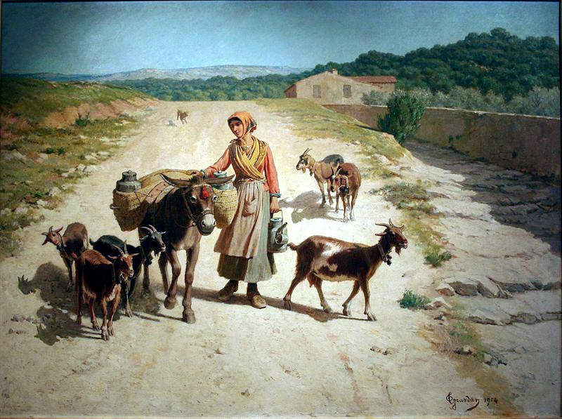 The Goatherd and Her Donkey